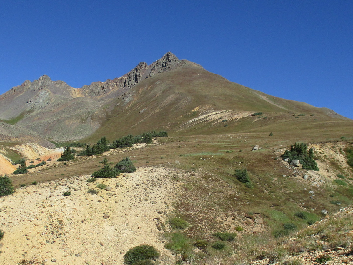 Matterhorn Peak, elevation 13,590 ft (4,142 m), viewed from the south. The peak is located in the Uncompahgre Wilderness within the Uncompahgre National Forest.